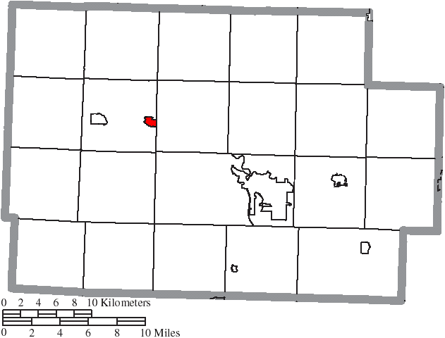 Map of the municipal and township boundaries of Coshocton County, Ohio, United States, as of the 2000 census, with the location of the village of Warsaw highlighted. Township borders are shown only in unincorporated areas in order to differentiate incorporated and unincorporated areas more clearly.